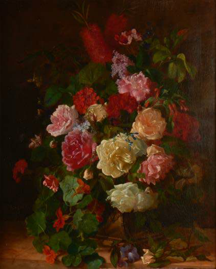 Still life (1871), by José Ferreira Chaves